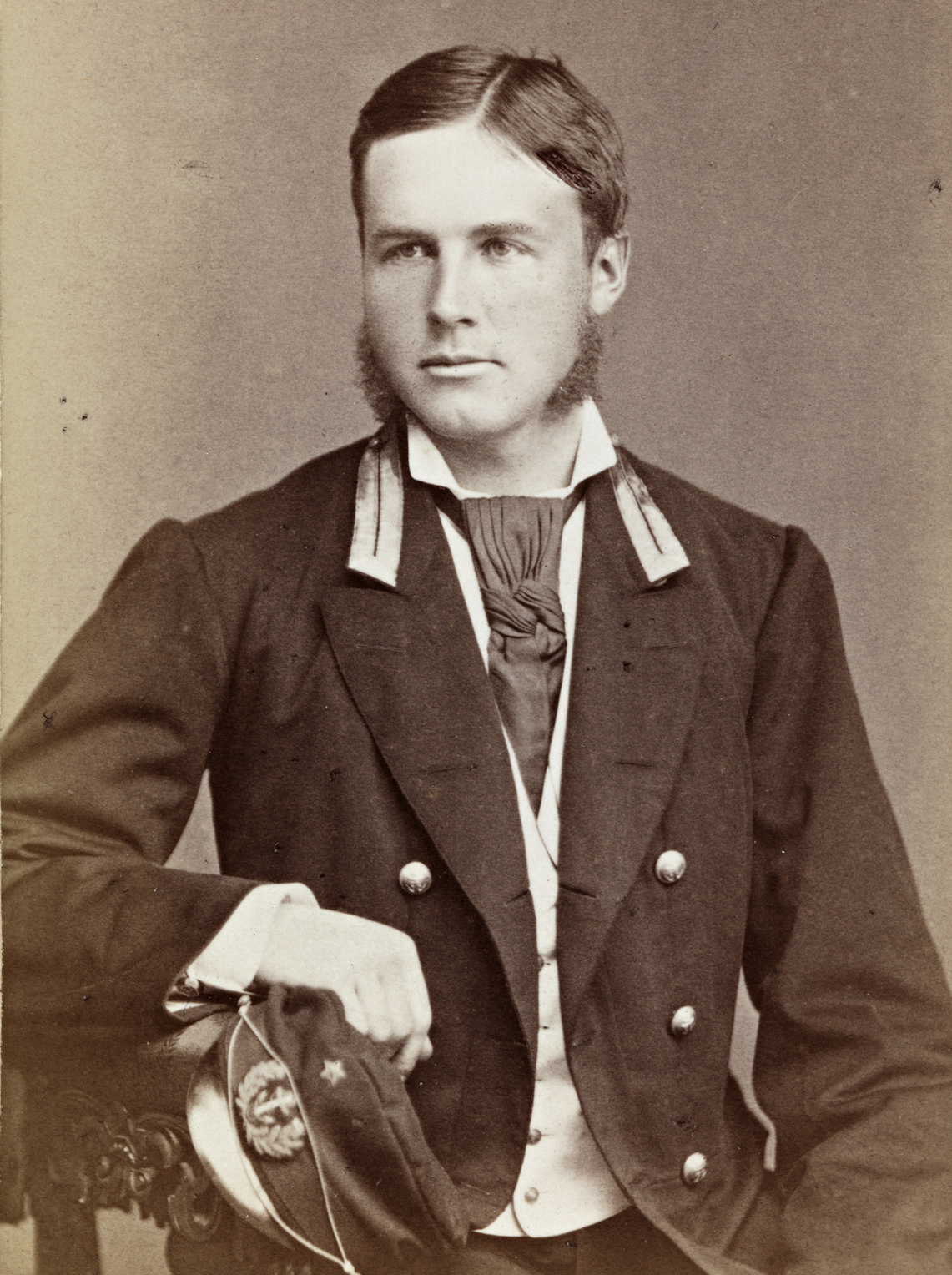 Tittel / Title: Portrett av Carl Sofus Lumholtz (1851-1922) Motiv / Motif: Visittkort. Lumholtz var oppdagelsesreisende og etnograf. Dato / Date: ukjent / unknown Fotograf / Photographer: Josephine Grundseth (Lillehammer) Sted / Place: Oppland, Lillehammer Eier / Owner Institution: Nasjonalbiblioteket / National Library of Norway Lenke / Link: Bildesignatur / Image Number: blds_05663